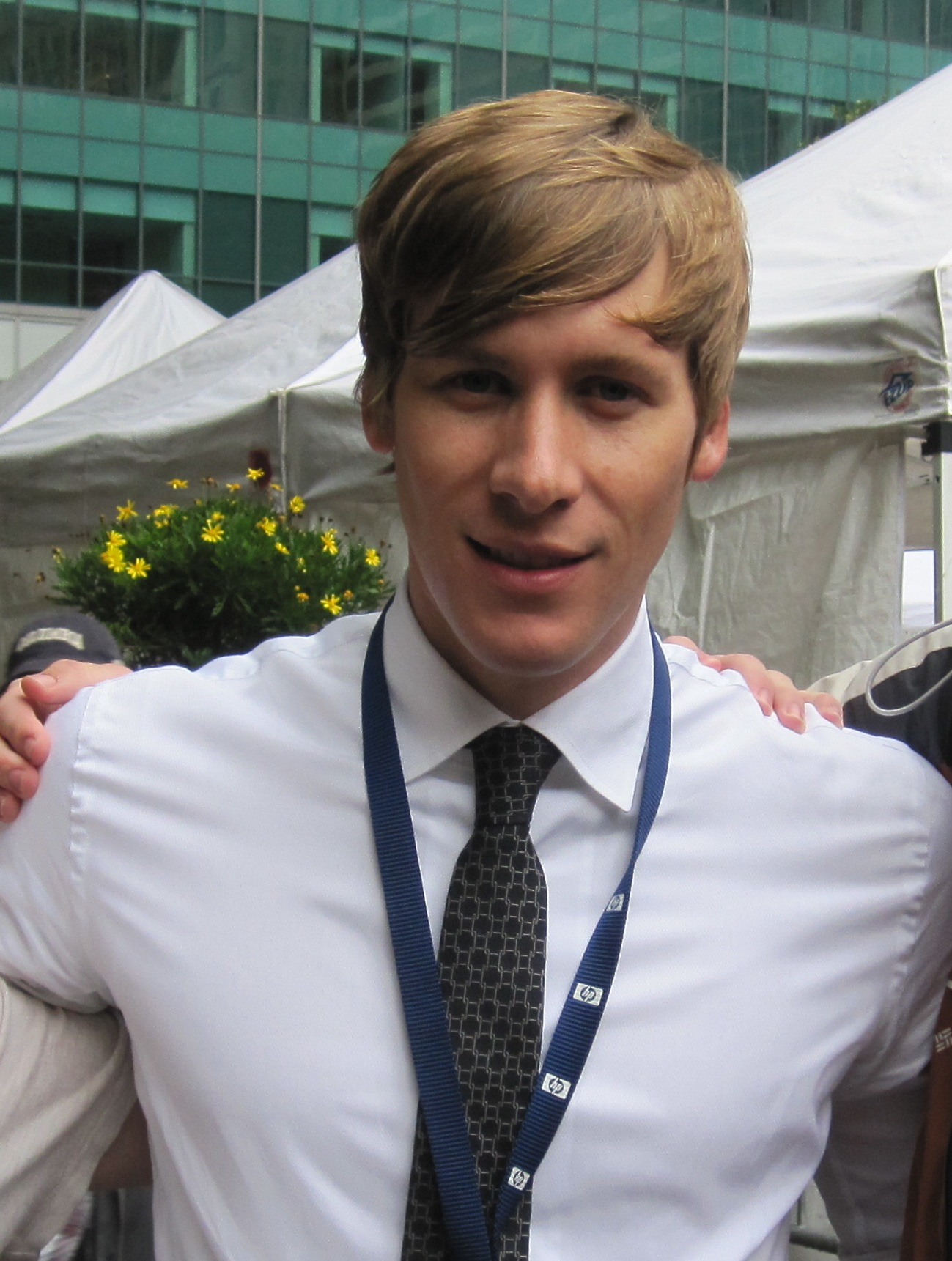 Dustin Lance Black at a rally in Bryant Park on 20 June 2009.